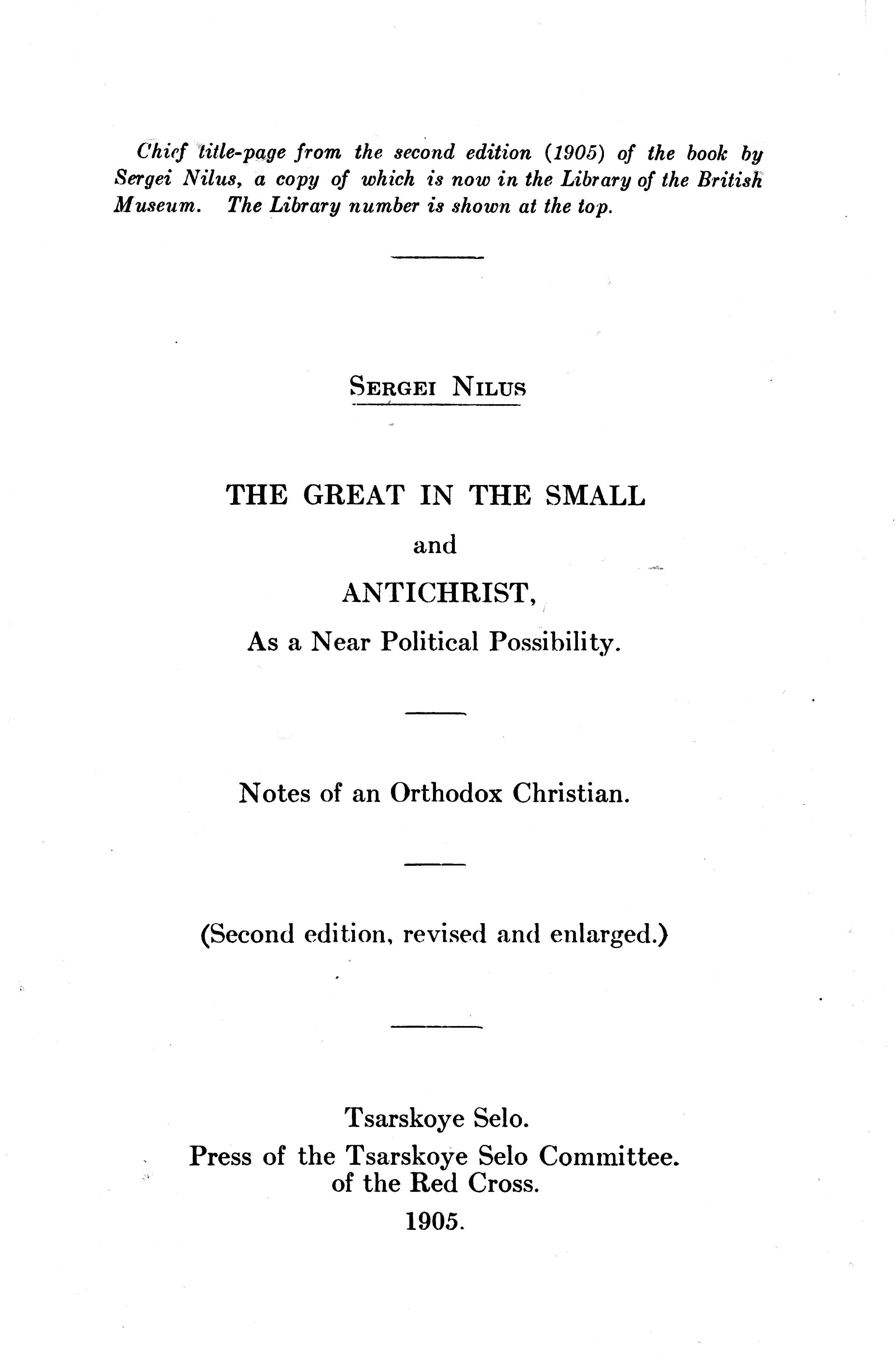 1905 Velikoe v malom - Serge Nilus - Title page - Translation - 1920